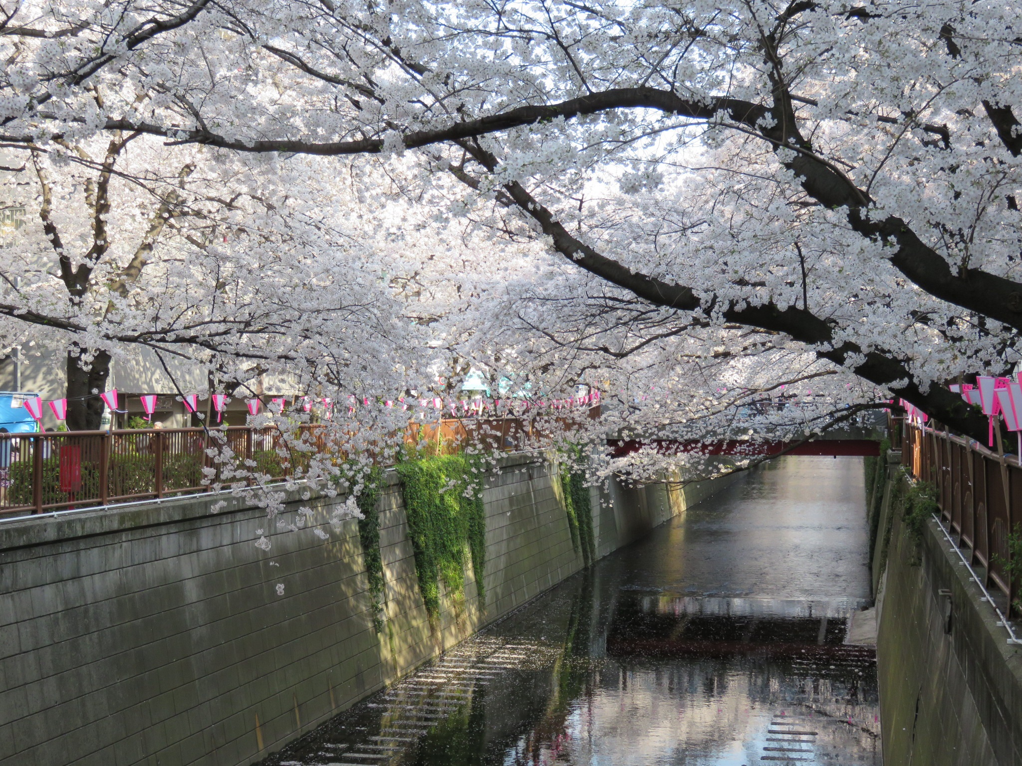 Meguro River, Spring 2014